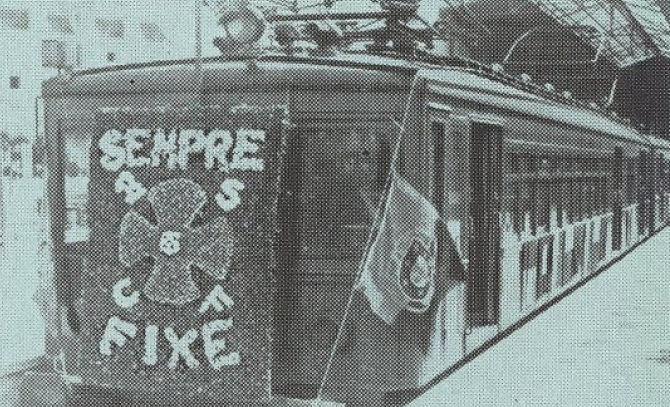 Special train at Cais do Sodré Railway Station on May 3, 1935, to transport the old fighters of the BSCF - Batalhão de Sapadores dos Caminhos de Ferro (Railway Sappers Batallion) to a reunion party in Cascais, in Portugal. This photograph was published on the Gazeta dos Caminhos de Ferro magazine No. 1285, of the 1st July 1941, and scanned by the Hemeroteca Municipal de Lisboa.